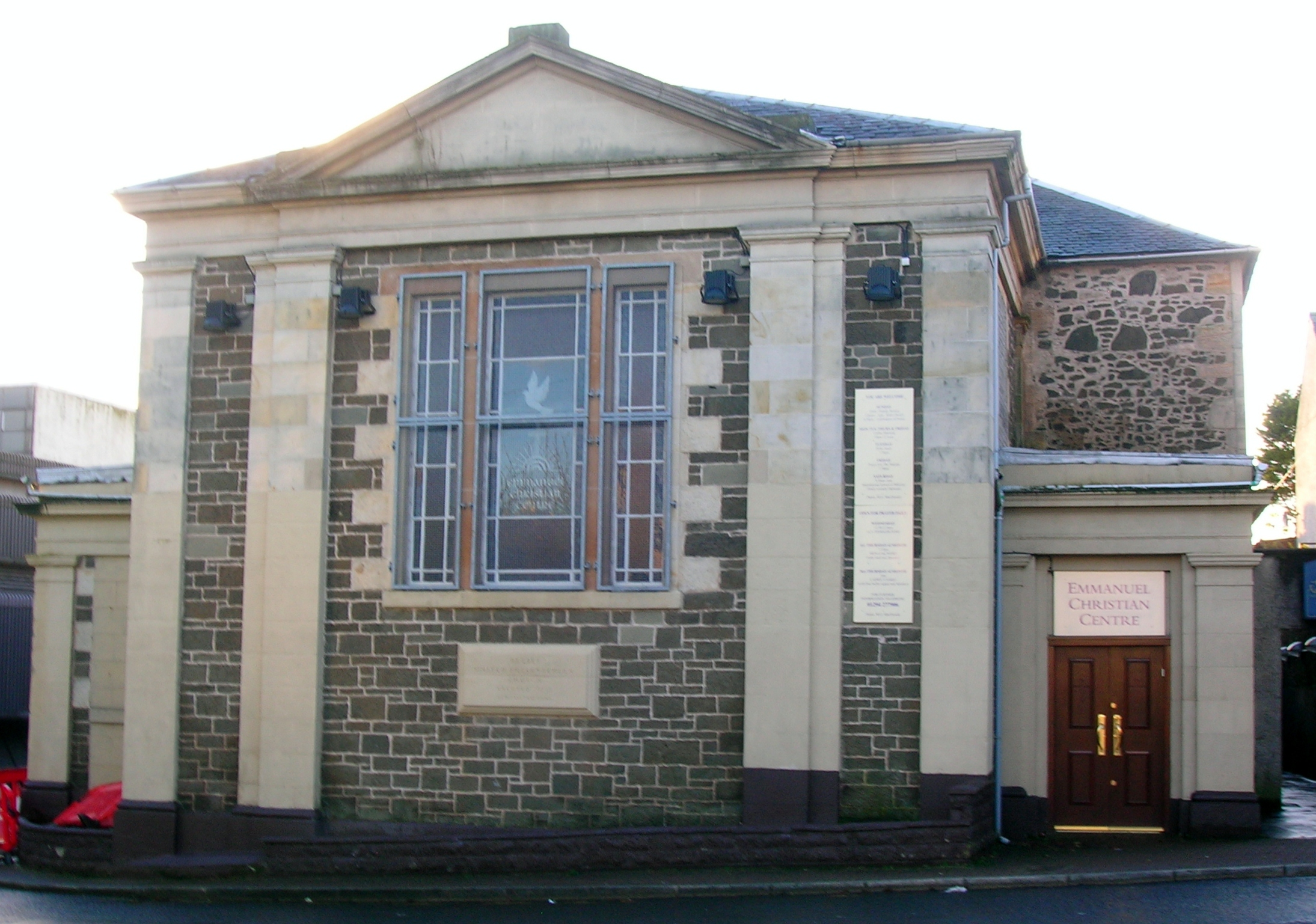 Relief United Presbyterian church of Irvine - 1775, Rev Hugh White of the Buchanites was once the minister. North Ayrshire, Scotland.